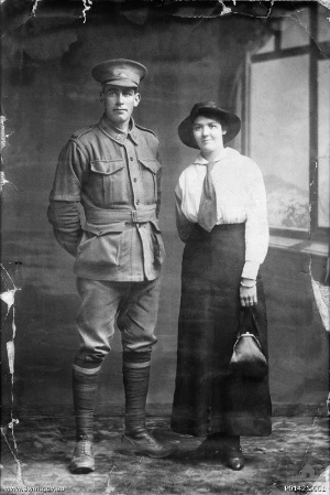 Alexander Henry Buckley and his fiance ID Number: P01421.001 Physical description: Black & white Summary: Probably DUBBO, NSW, C. 1916. STUDIO PORTRAIT OF 1876 PRIVATE ALEXANDER HENRY BUCKLEY, WHO ENLISTED 1916-02-03, WITH HIS FIANCE. A MEMBER OF THE 54TH INFANTRY BATTALION, HE WAS KILLED IN ACTION 1918-09-01 NEAR PERONNE, FRANCE, AND FOR HIS BRAVERY WAS AWARDED THE VICTORIA CROSS (VC). Copyright: Copyright expired - public domain Copyright holder: Copyright Expired Related subject: Portraits; Victoria Cross Related unit: 54 Battalion Related place: Australia: New South Wales, Dubbo; France; France: Picardie, Somme, Peronne Related conflict: First World War, 1914-1918